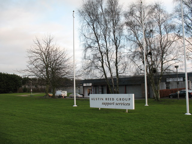 Industrial Park Thirsk Various light industrial units and offices on this development to the west of Thirsk, including Austin Reed.